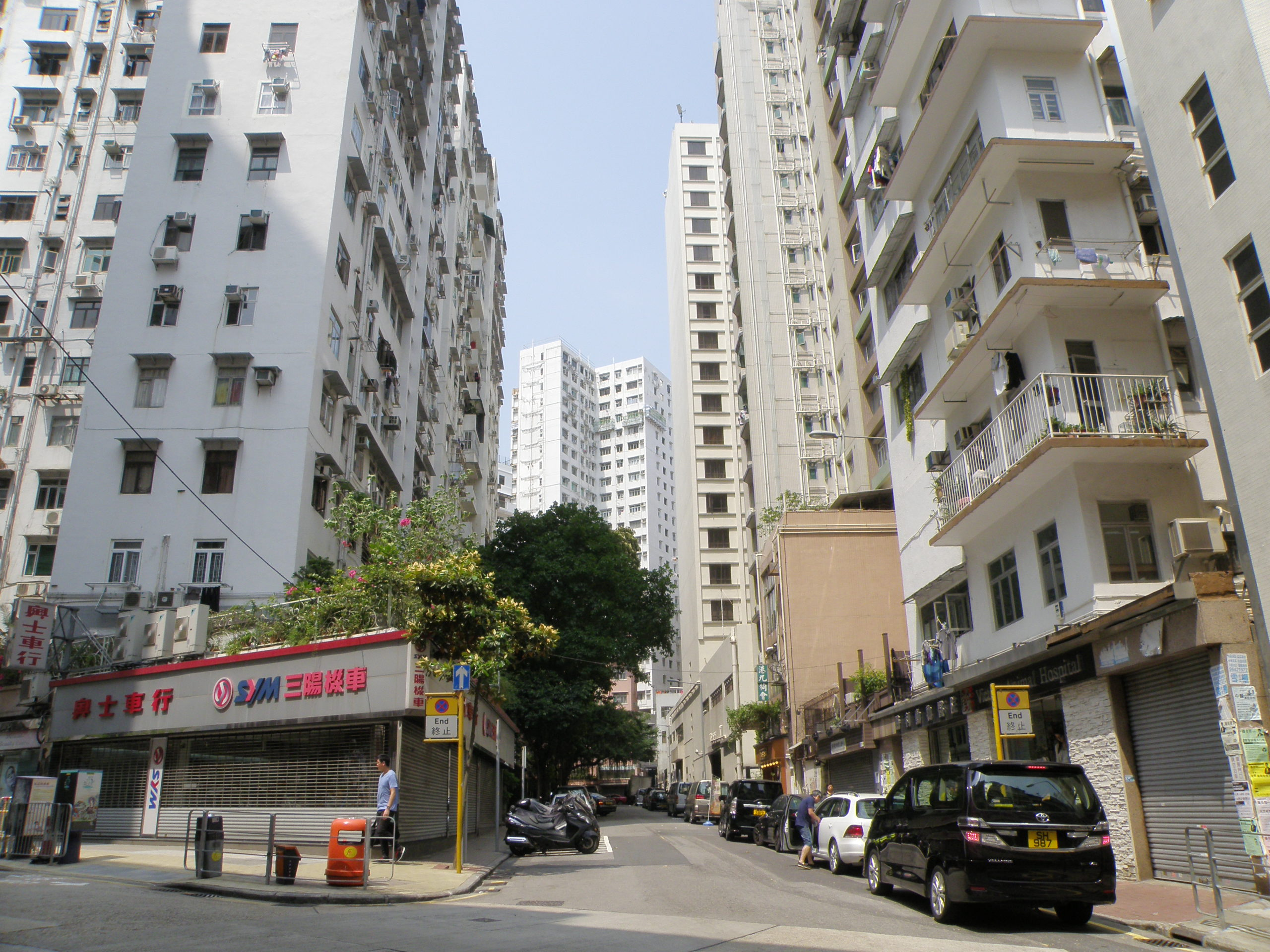 Emma Avenue in Mong Kok, Hong Kong.